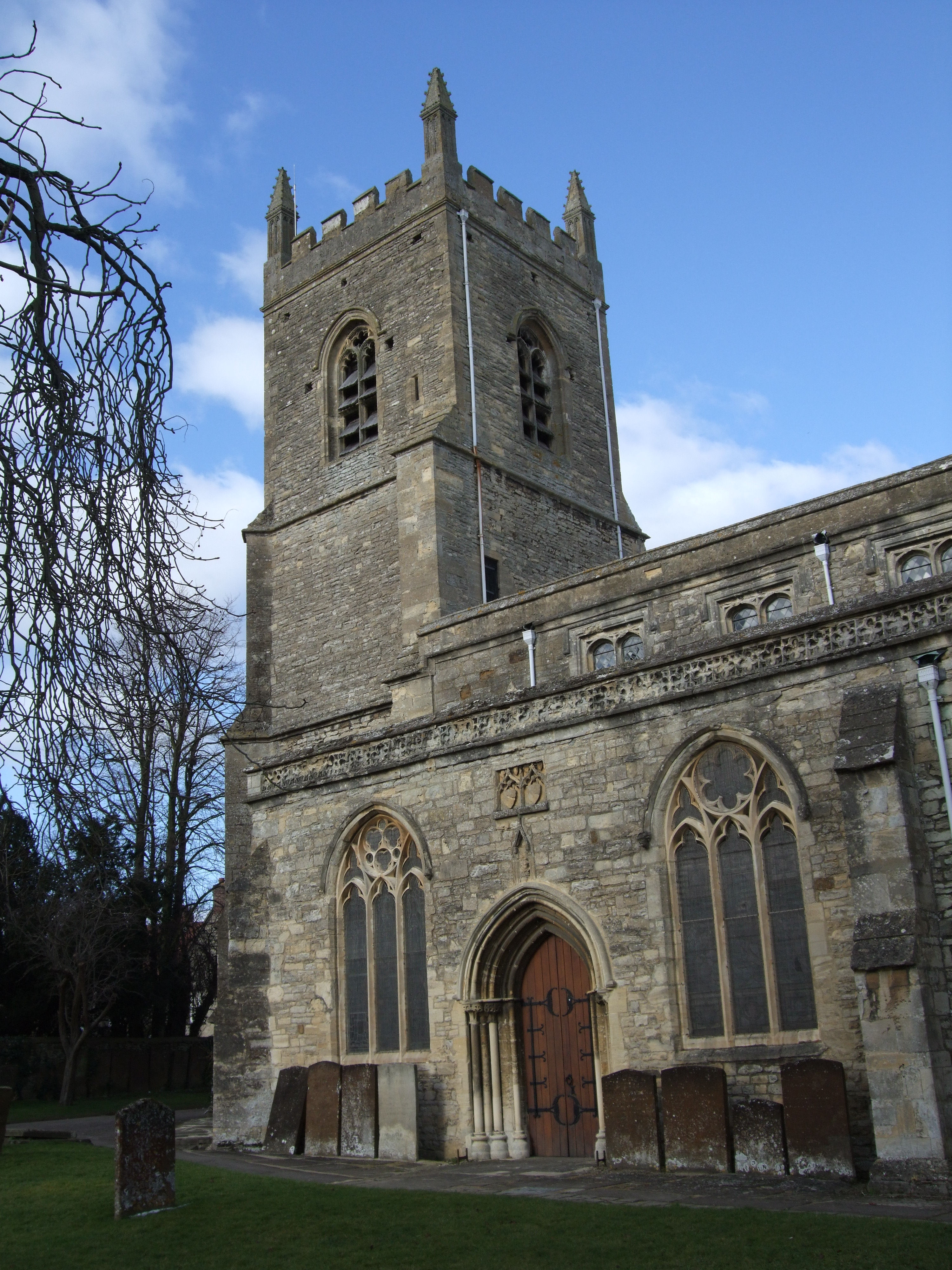 Bicester Parish Church is dedicated to St Edburg. St. Edburg (or Eadburh or Edburga) was a Saxon and very likely the leader of a religious house - or houses - in Oxfordshire. She may have been the aunt of St. Osgyth, another Oxfordshire Saxon, and may also have been the sister of Wulfere, king of Mercia.